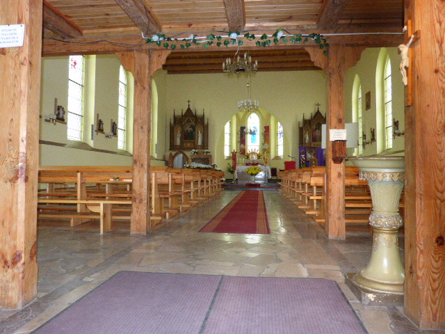 Interior of Saint Stanislaus Kostka church in Siemyśl, Poland